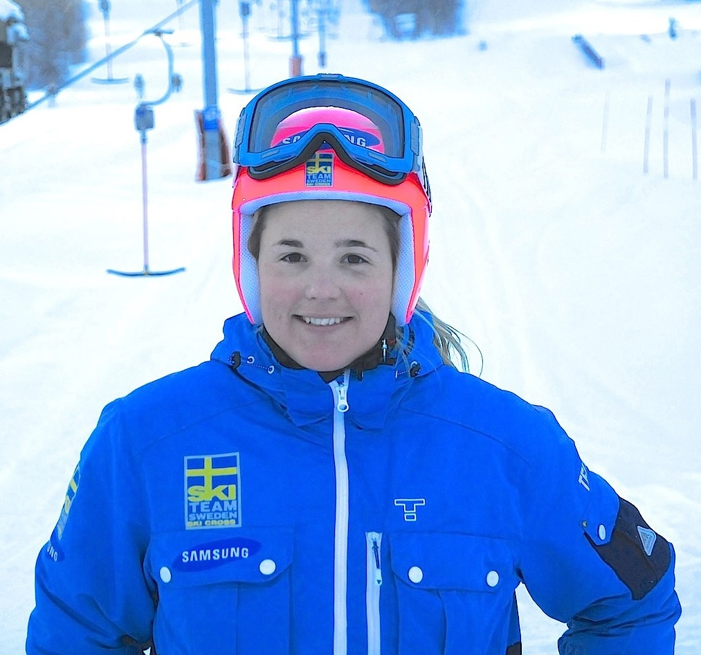 Swedish skicross skier Anna Holmlund.